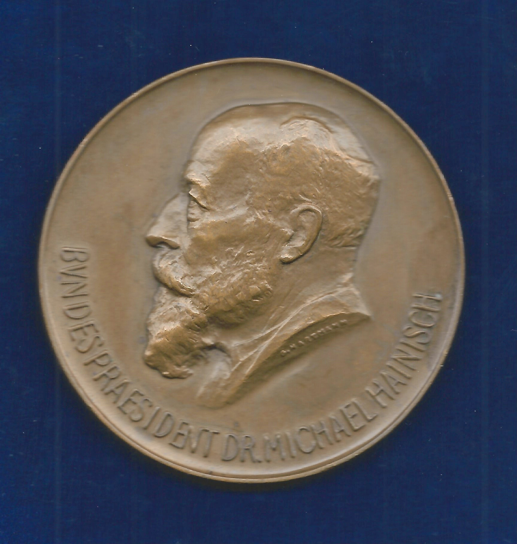 Michael Hainisch (1858-1940), President of the Federal Republic of Austria 1920 - 1928, 1858 Aue bei Schottwien, Austria - 1940 Vienna. Head l., curved below: "BVNDESPRAESIDENT DR. MICHAEL HAINISCH"/ uniface. Condition: UNCIRCULATED